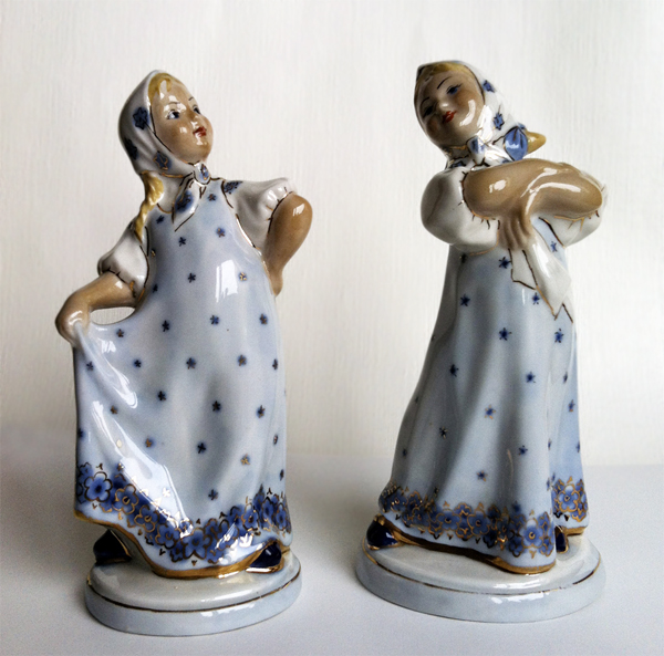 Porcelain sculpture group «Dancing Girls». About 1950. Porcelain Factory «Red farforist» (Chudovo, Novgorod region. USSR). By the soviet sculptor Bronislav Bystrushkin (1926-1977). Lomonosov's Porcelain Factory, Leningrad, USSR.